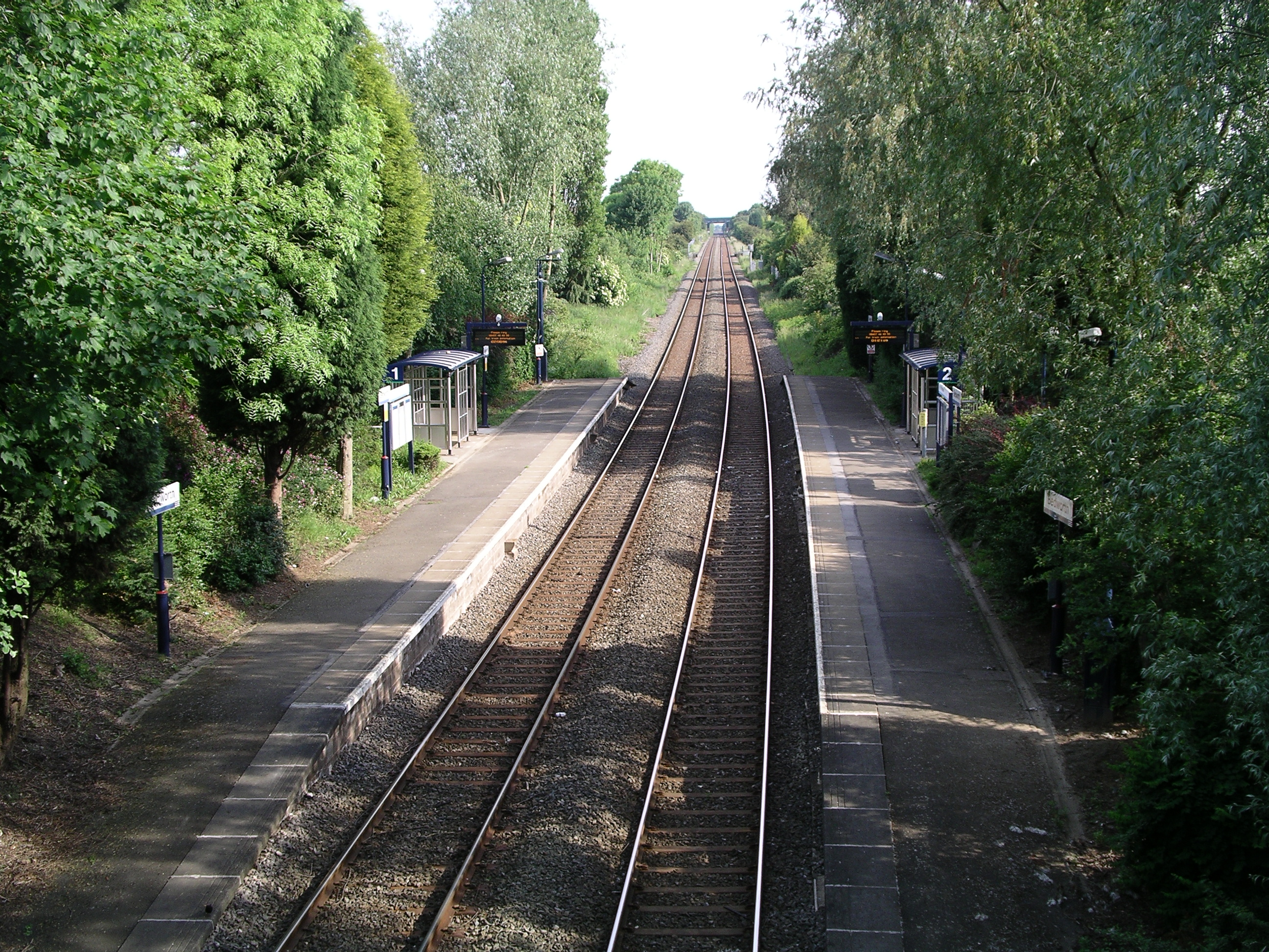 Photo of Bedworth Railway station from the road bridge.